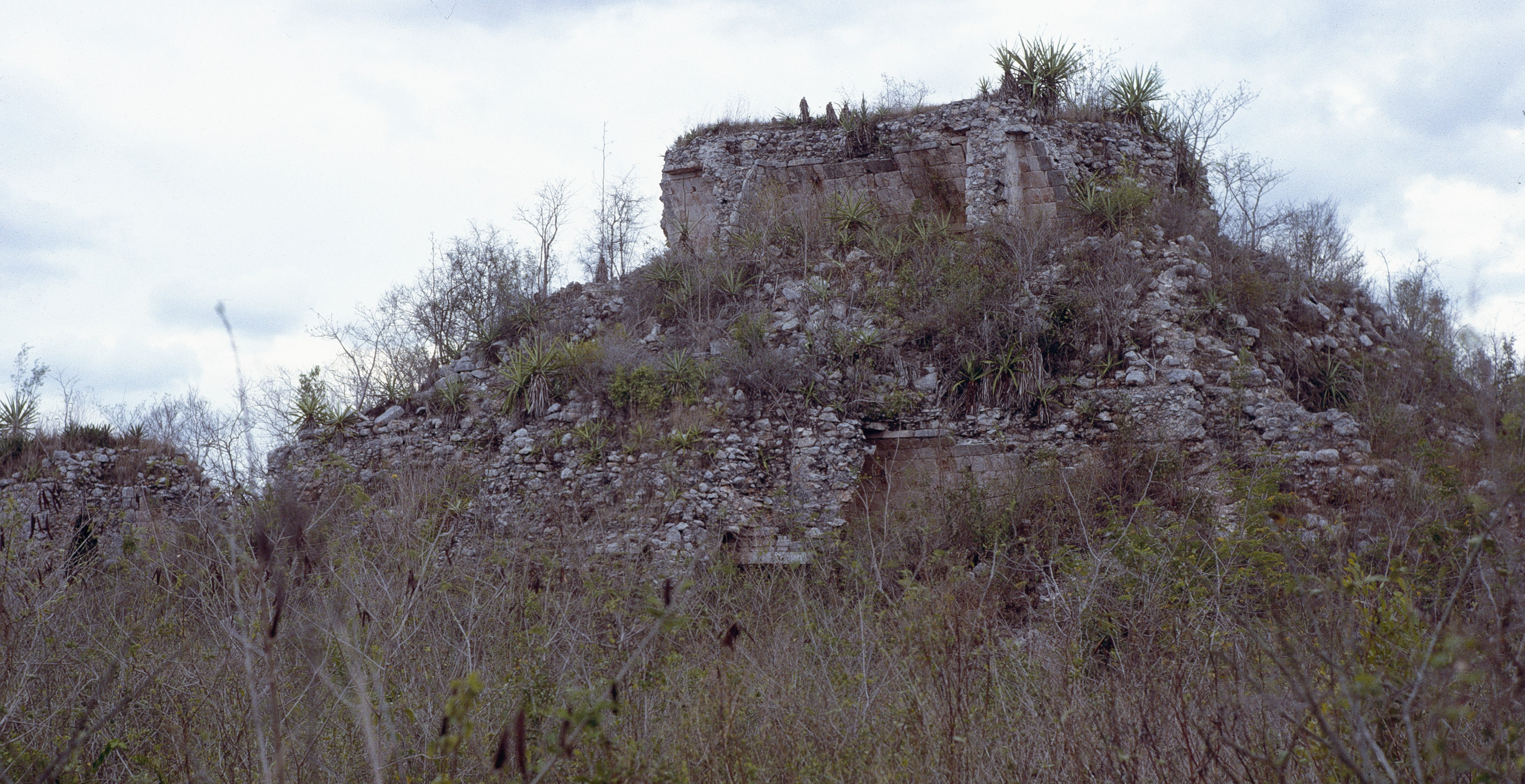 Kabah, Yucatan, Mexico: building 2A1, east side